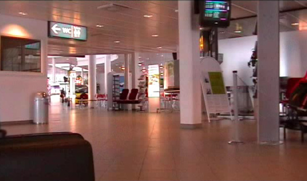 Vaasa Airport in Vaasa, Finland